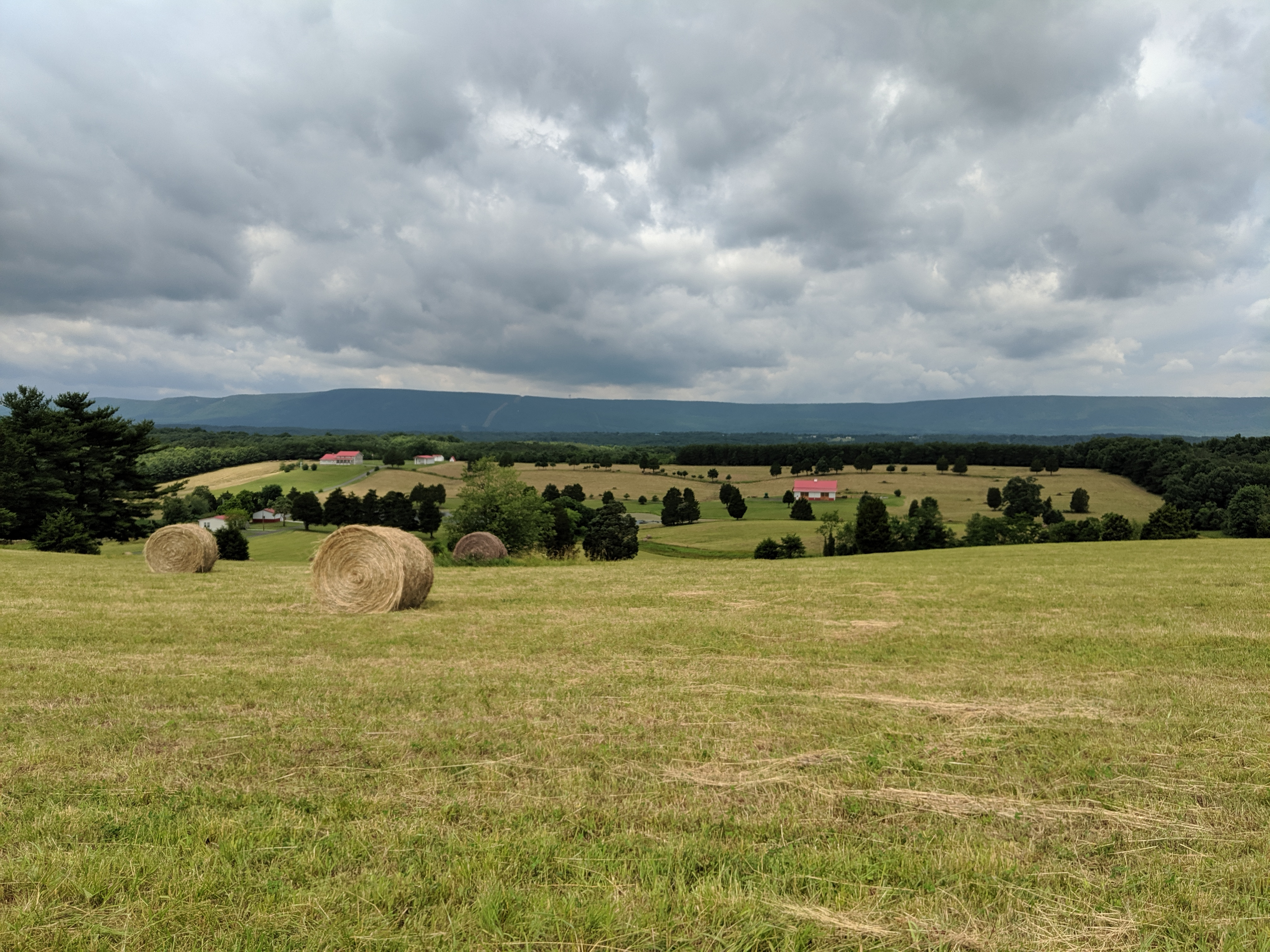 Scenic view of rolling farmland in Unger, West Virginia, from Winchester Grade Road (County Route 13) next to South Morgan Volunteer Fire Department. Cacapon Mountain is in the background.